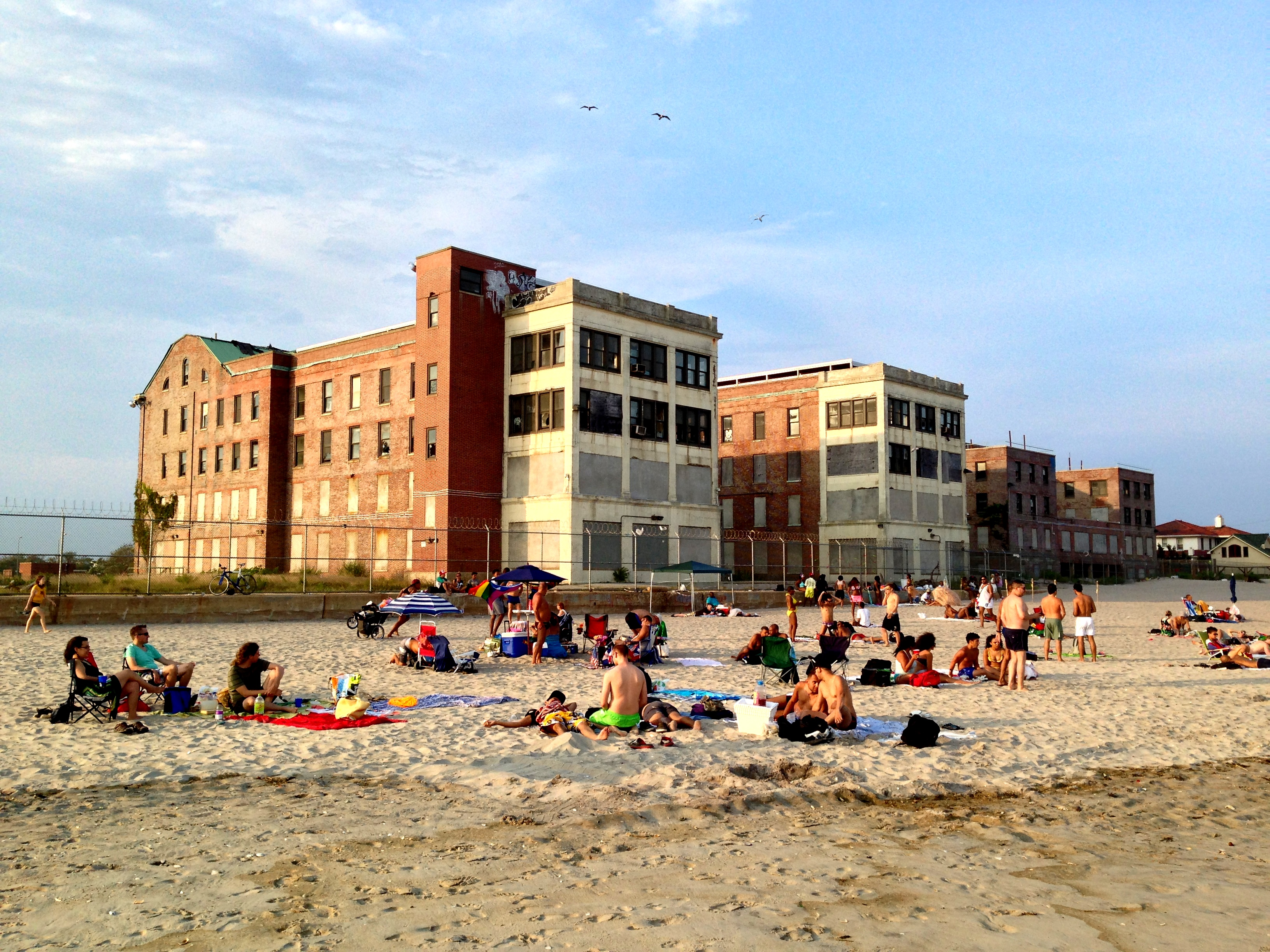 People on the beach against the backdrop of an abandoned tuberculosis hospital at New York City's Jacob Riis Park in the Gateway National Recreation Area over Labor Day weekend.